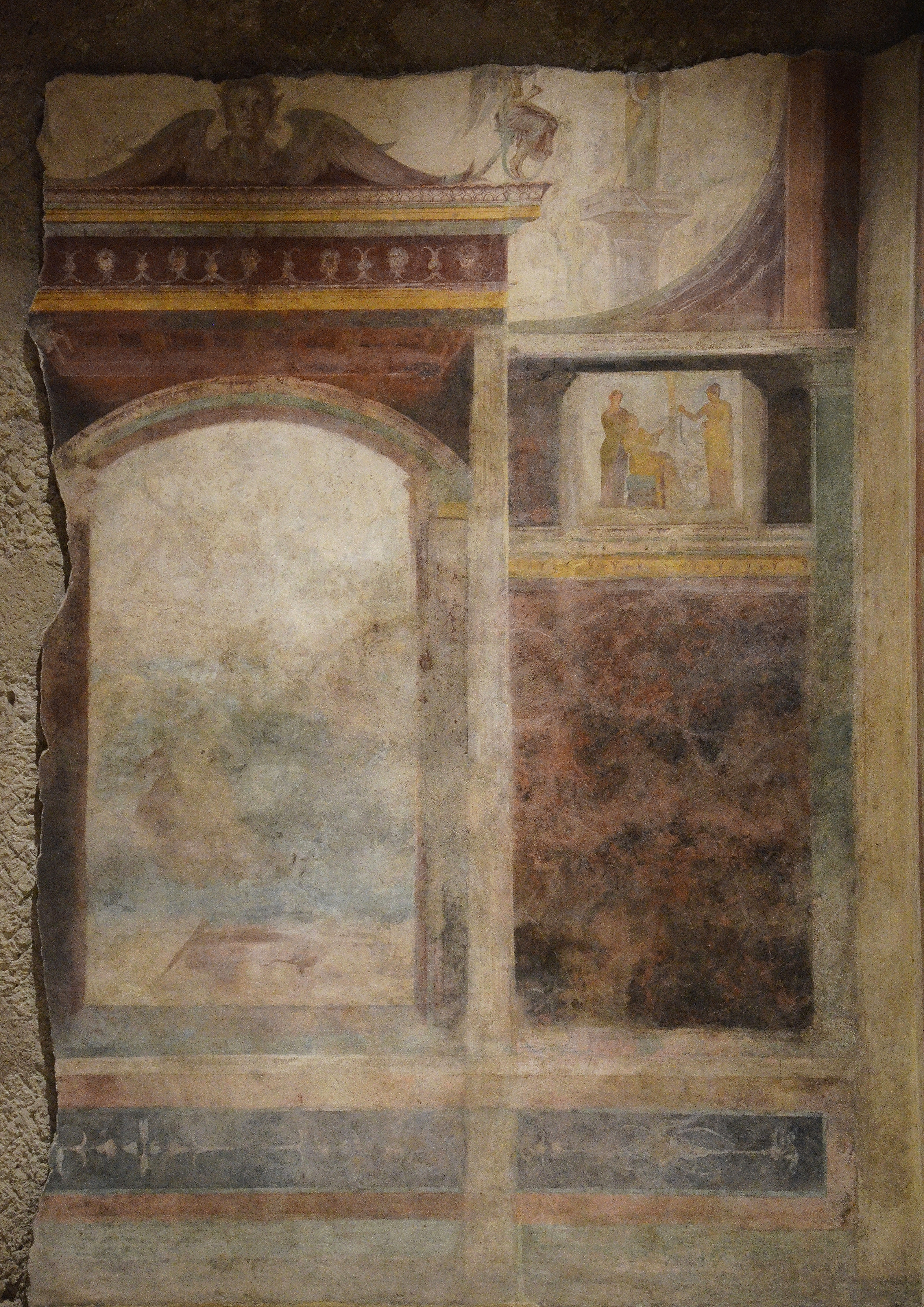 Detail of wall painting on the back wall of the tablinum of the House of Livia, the large mythological picture in the middle depicting Polyphemus and Galatea is now totally illegible, House of Livia, Palatine Hill, Rome